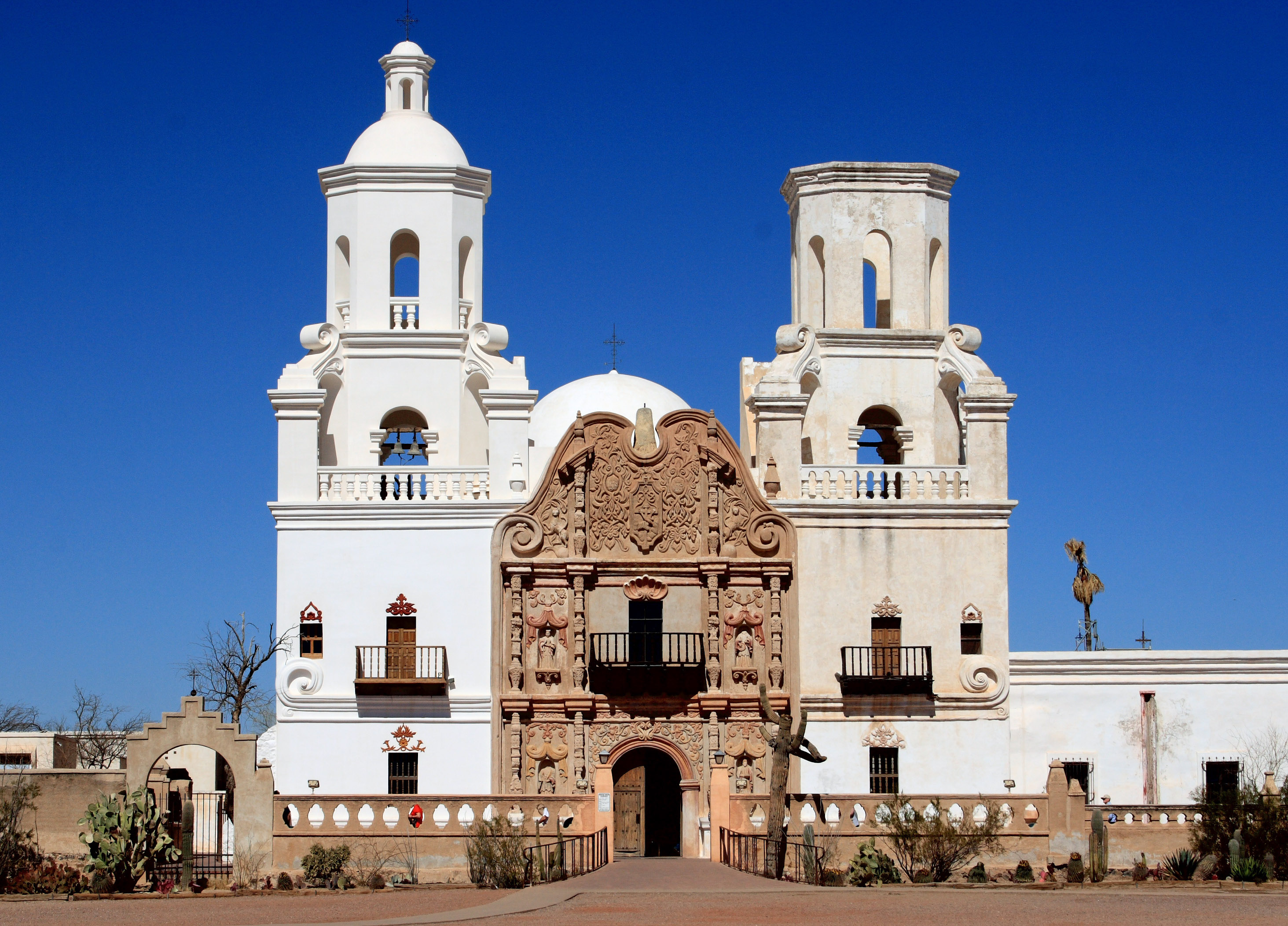 The Mission Xavier del Bac is an impressive site about 10 miles south of Tucson, AZ. The outside is gleaming white and the inside is a mix of colors - it was definitely worth a trip to visit this Mission.